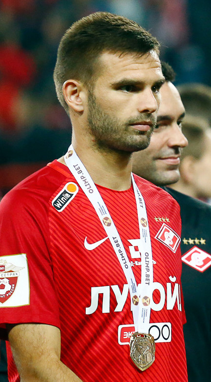 Marko Petković, Ivelin Popov